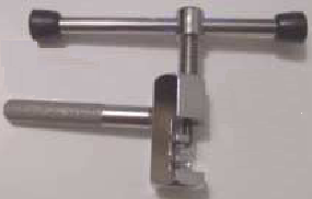 Tool for cut and join chains of a bike.